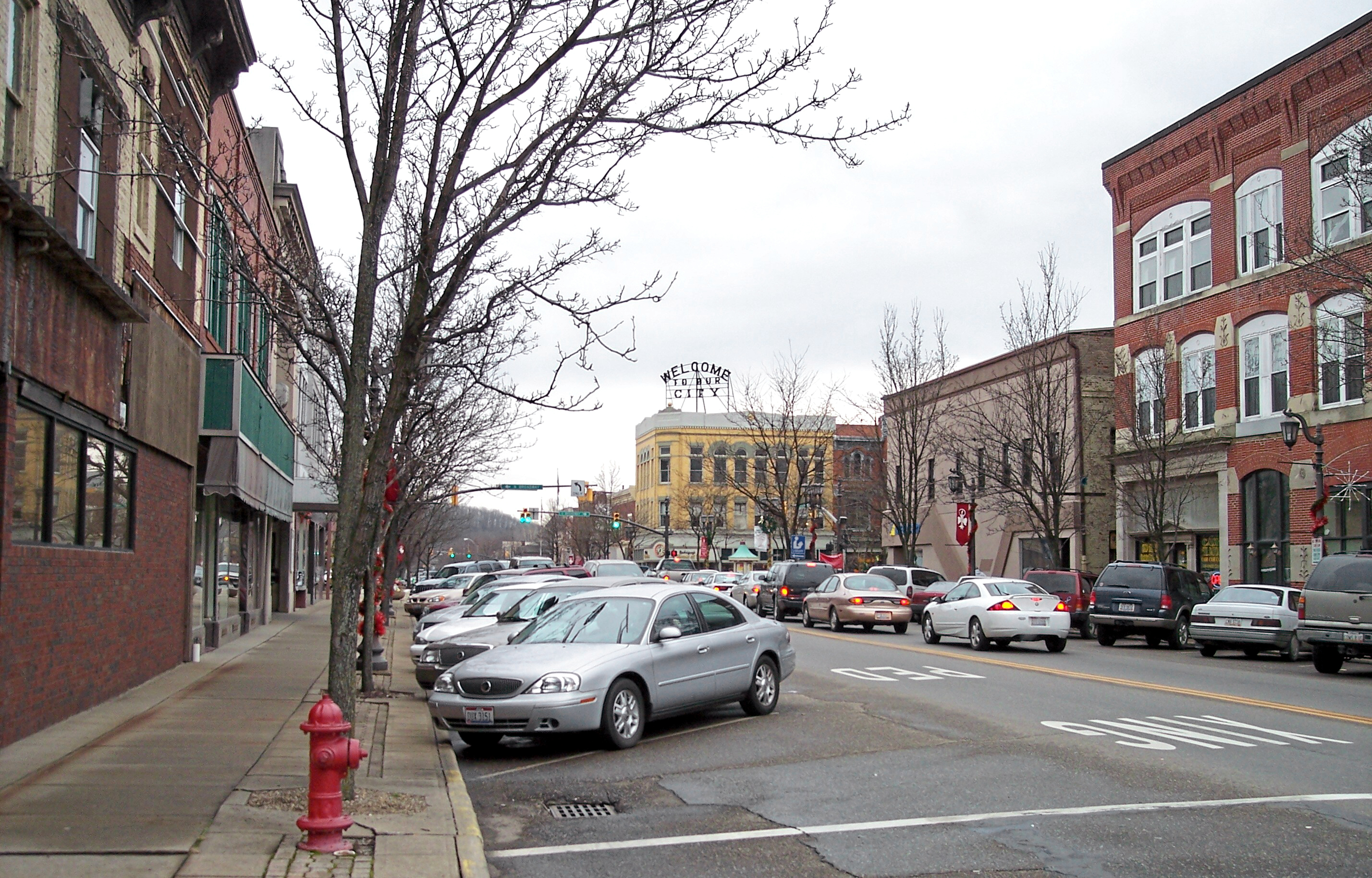 High Street in downtown New Philadelphia, Ohio